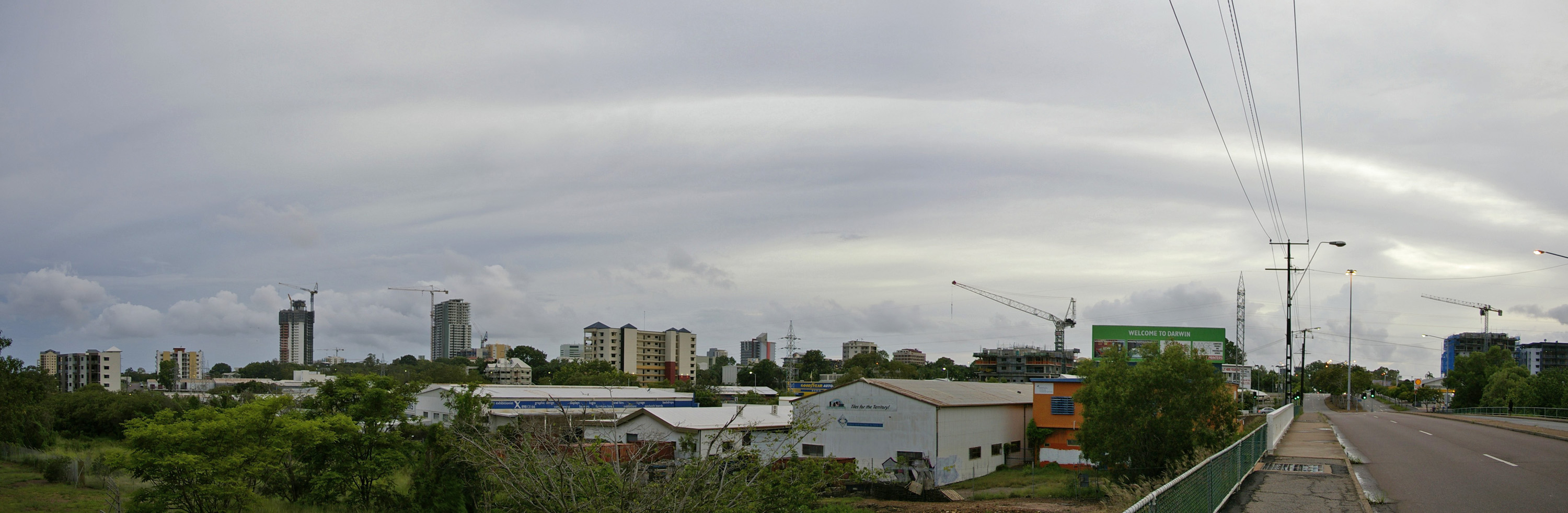 Panorama of Darwin, Northern Territory.